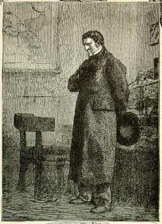 Jean Valjean, monsieur Madeleine